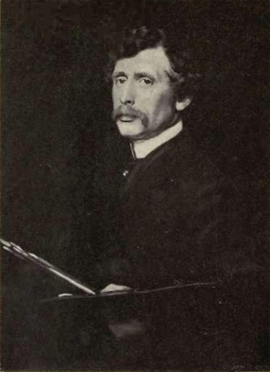 Frontpiece Portrait of Louis Rhead from A Collection of Book Plates, Louis Rhead, 1907